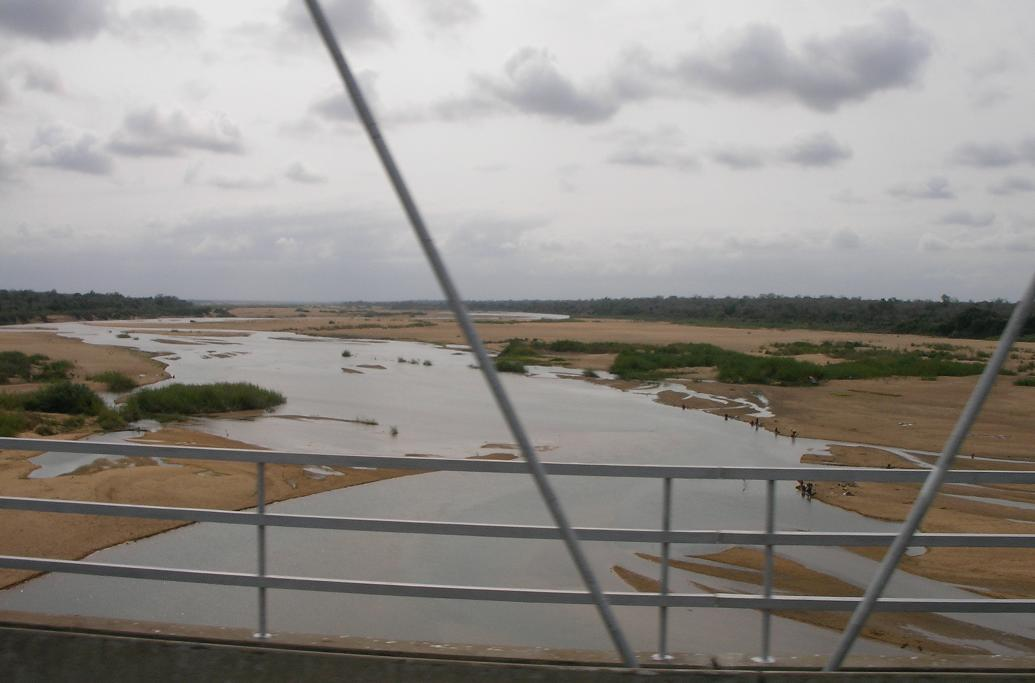 view from bridge over Save River (Rio Save) in Mozambique, Africa.